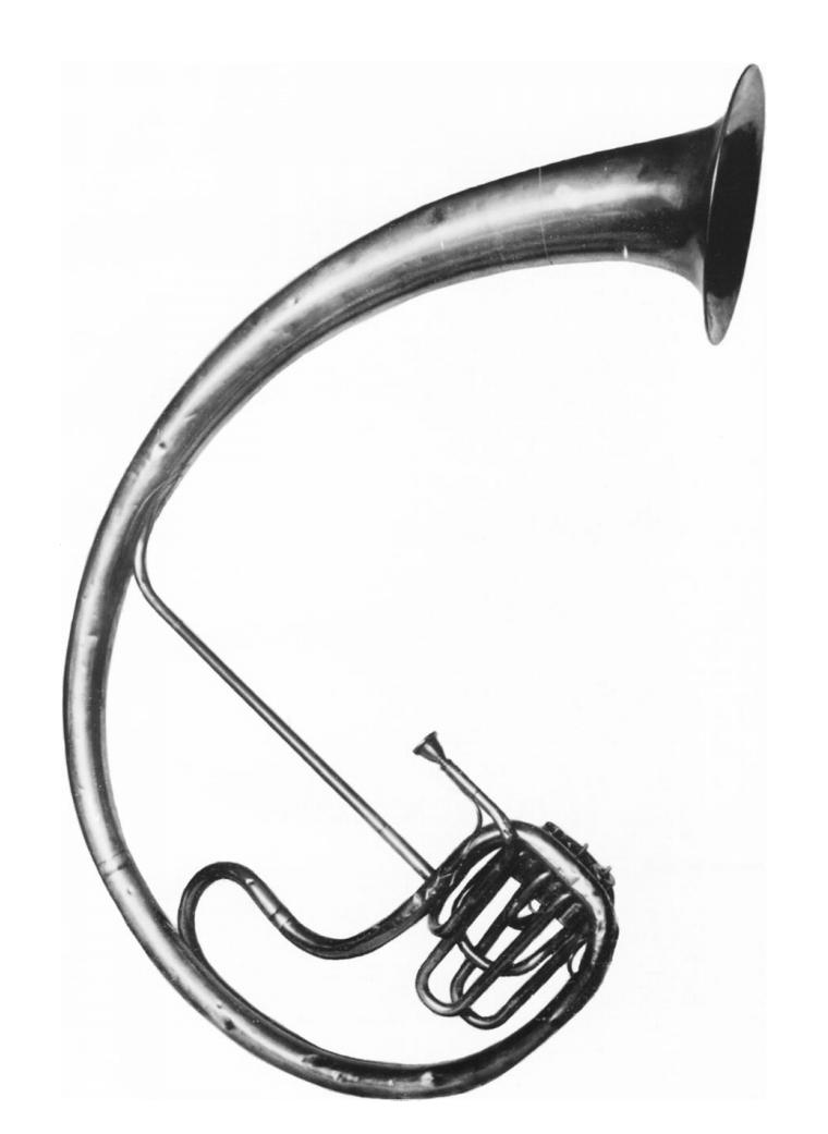 1889 Photo of a saxtuba from the Crosby Brown Collection of Musical Instruments at the Metropolitan Museum of Art, New York